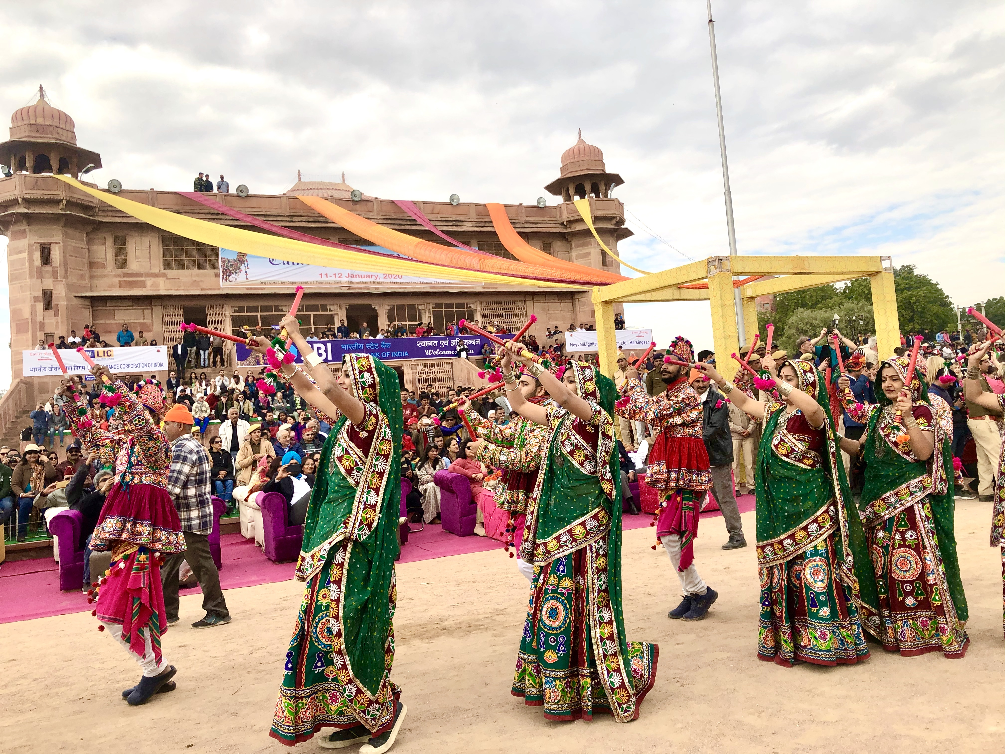 This photo has been taken in the country: India